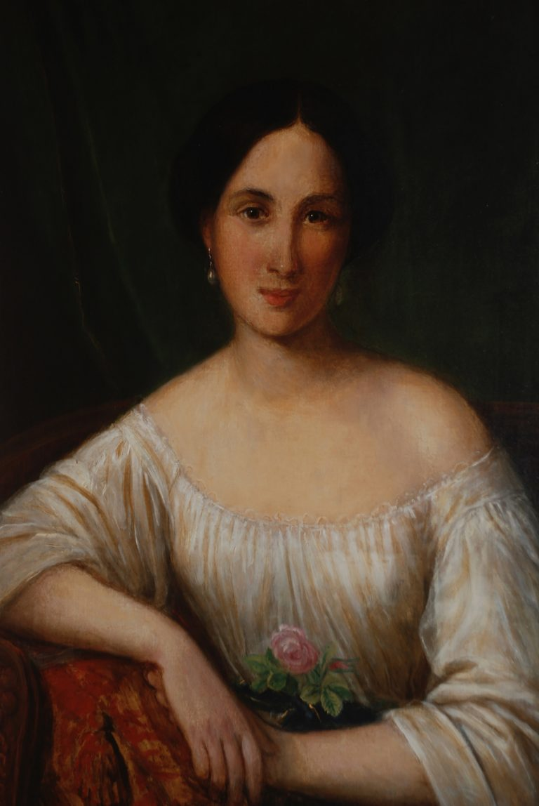 Clara Hall, Winston Churchill's maternal grandmother